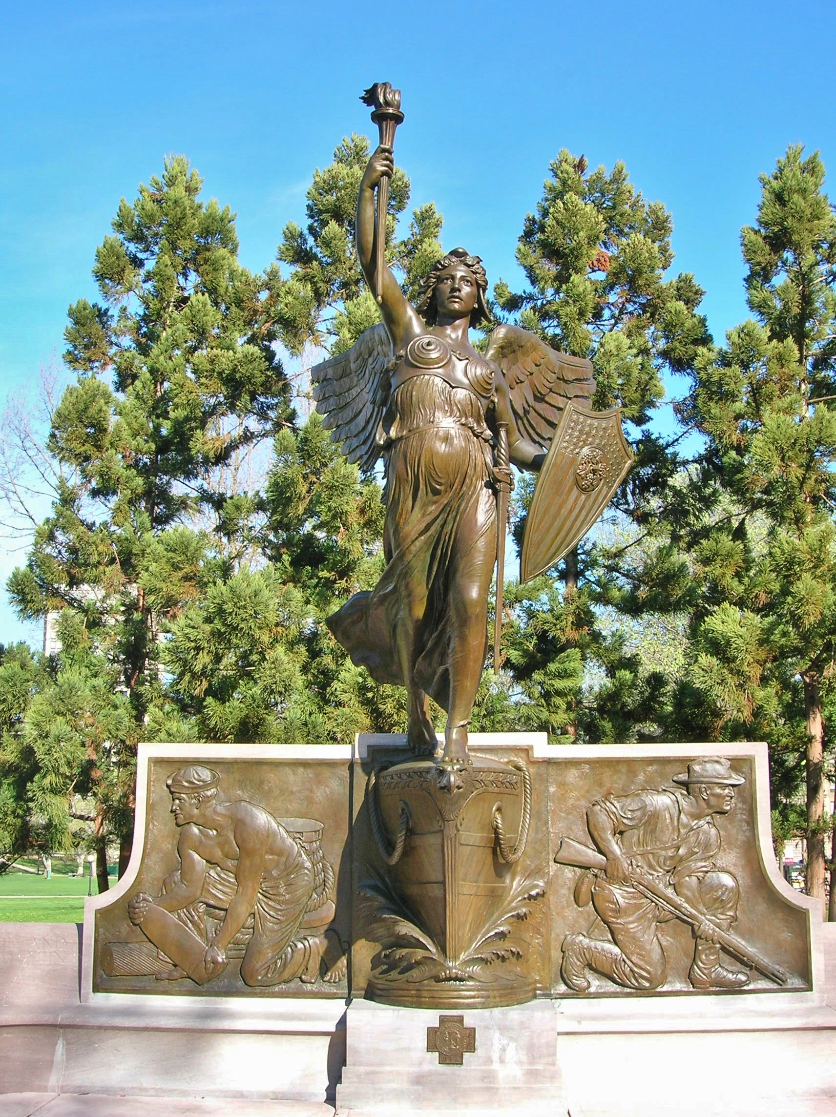 Spanish-American War Memorial titled "Spirit of Victory" by Evelyn B. Longman, 1926. Located in Bushnell Park, Hartford, Connecticut.